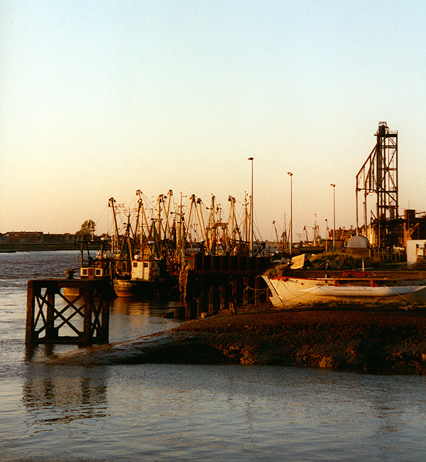 Fishing boats on the River Great Ouse, in King's Lynn.